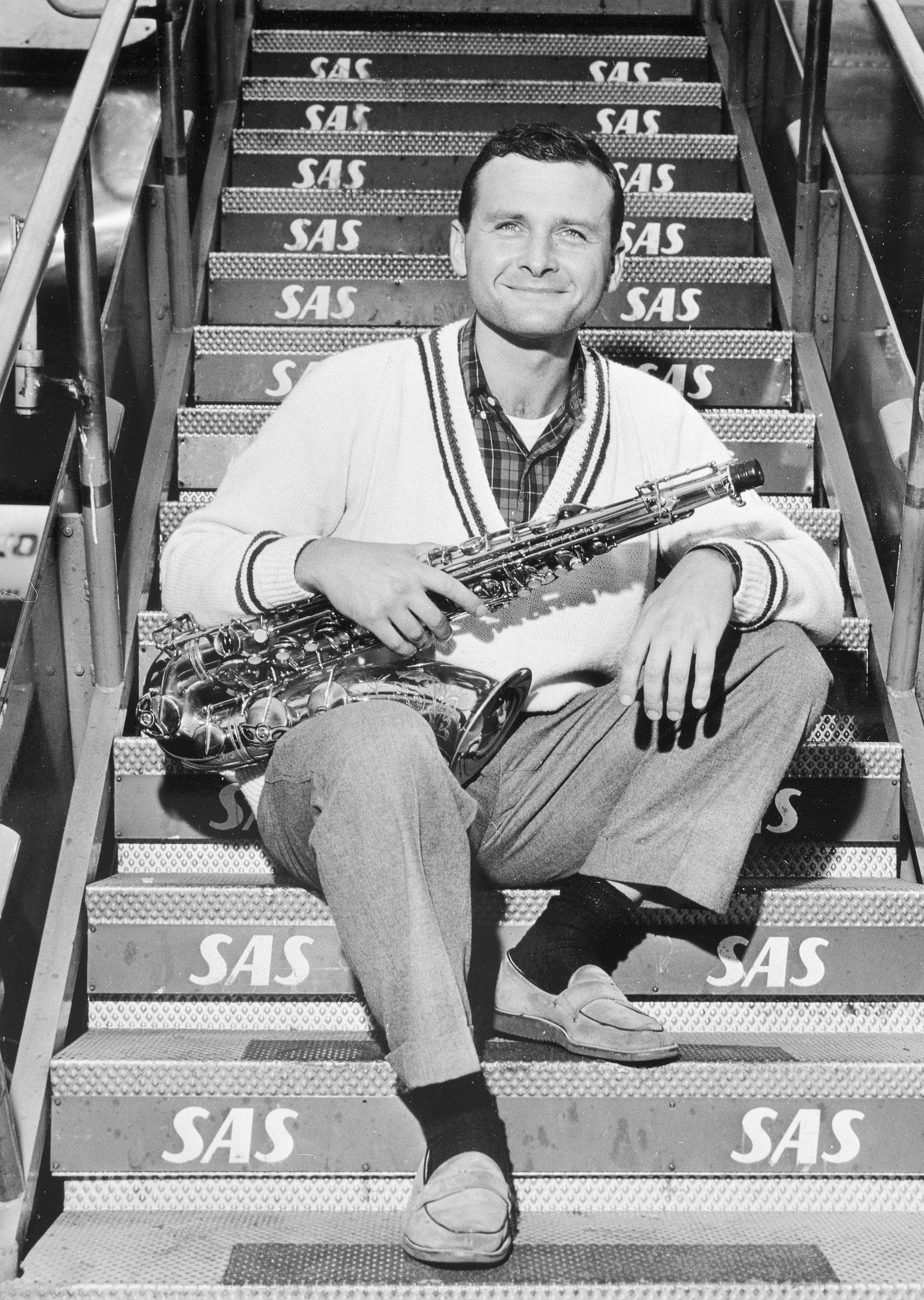 Stan Getz, tenor saxophonist at Kastrup Airport CPH, Copenhagen, Denmark.